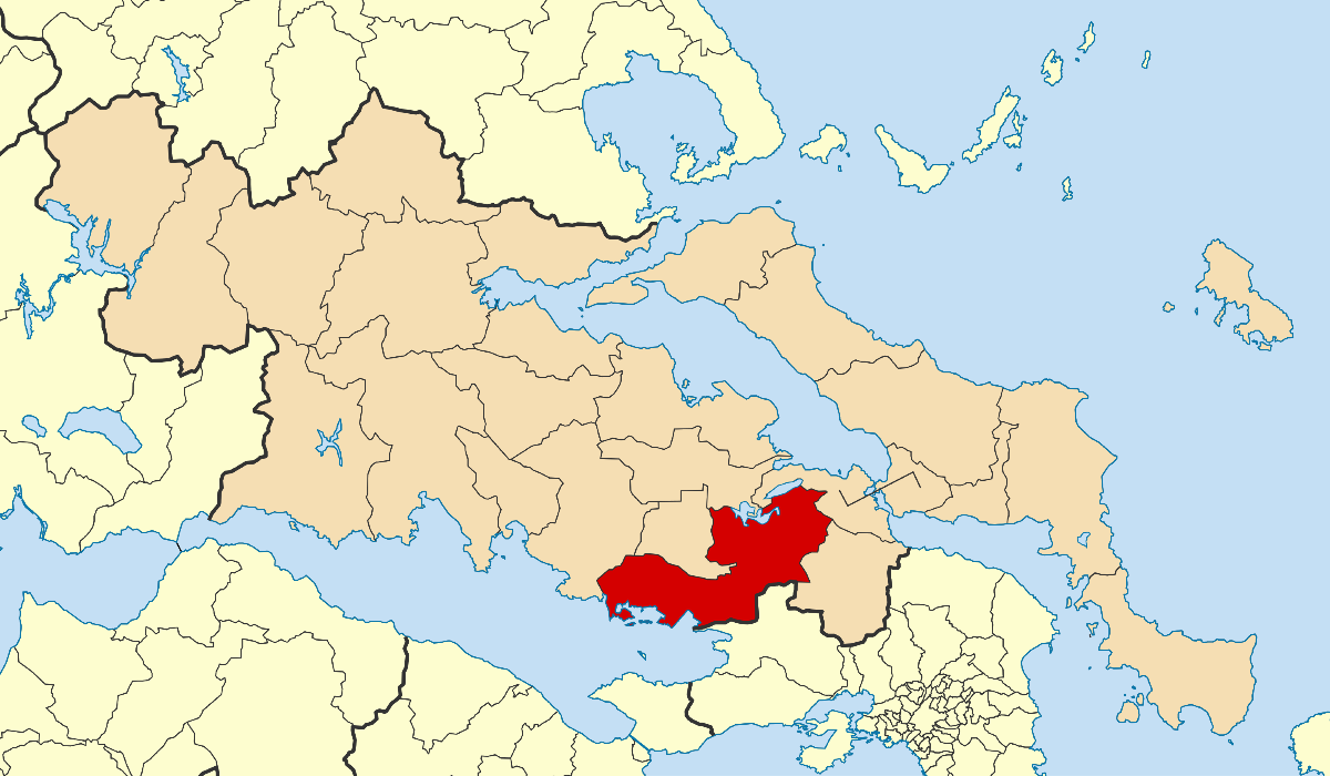 Locator map for Thiva municipality in Greek region Central Greece (2011)